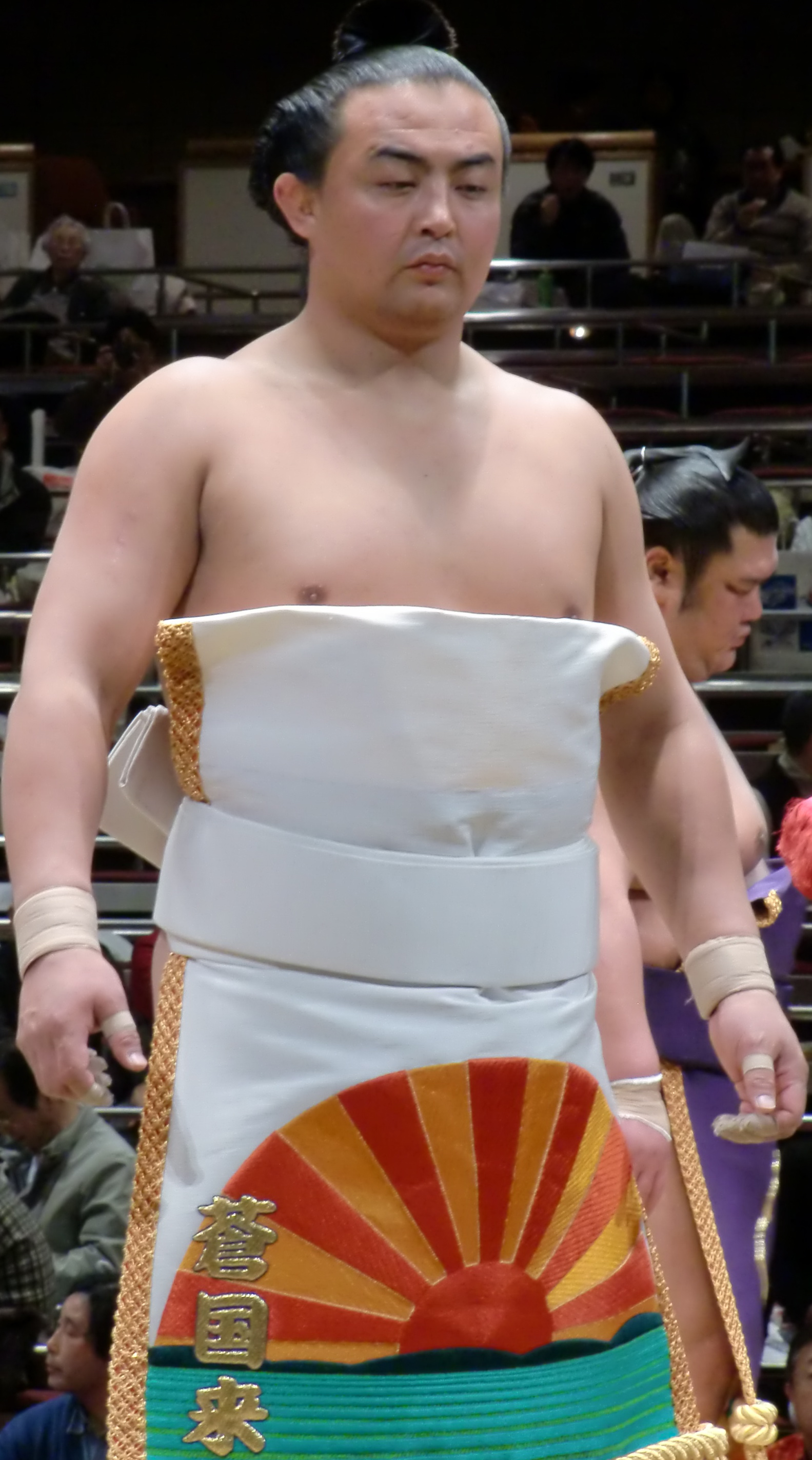 taken at 2010 Jan tournament